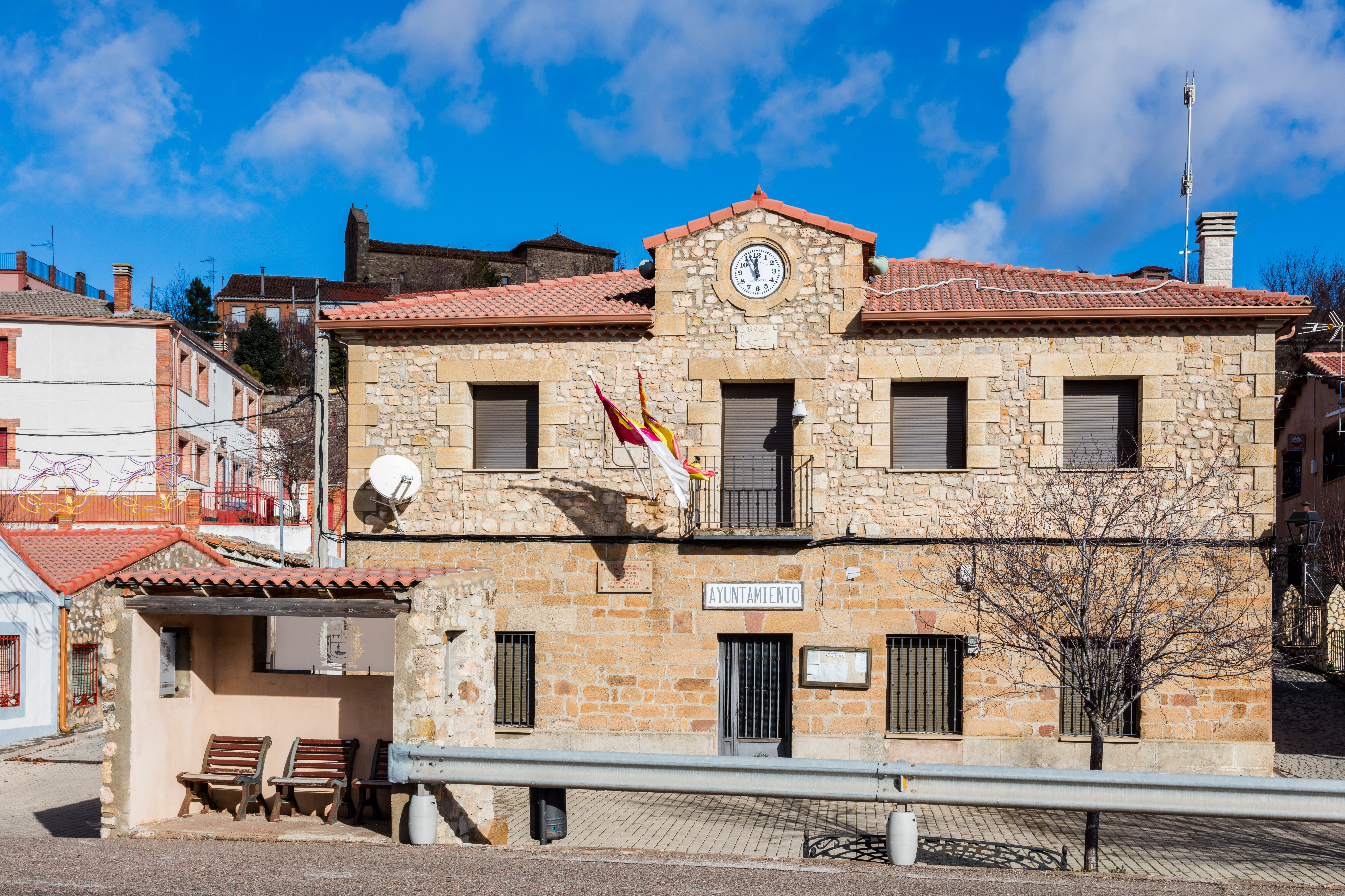 Anquela del Ducado, Guadalajara, Spain